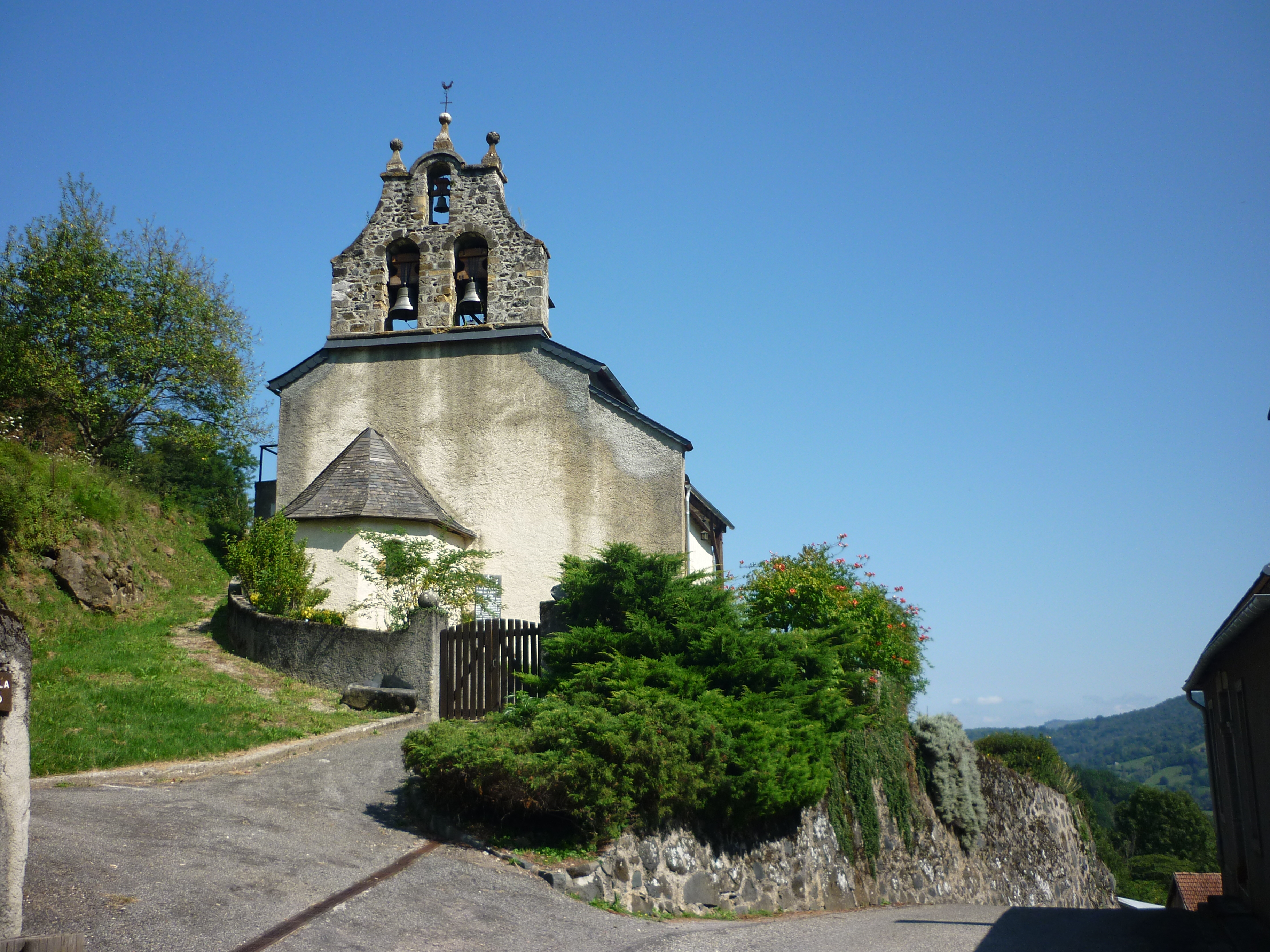 Salsein (Ariège) - Church